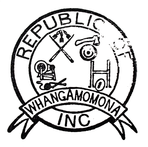 Seal of the Republic of Whangamomona, New Zealand